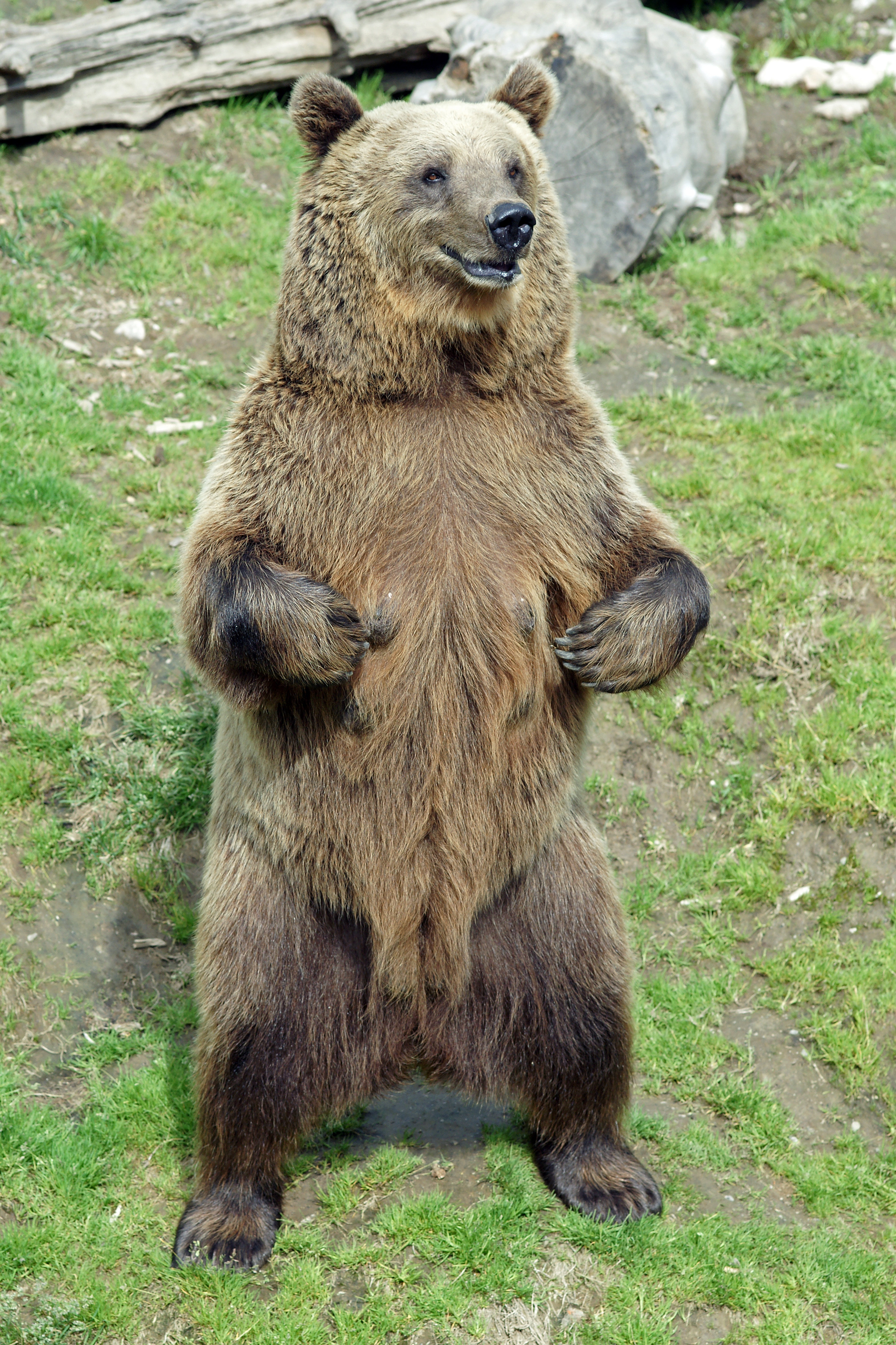 Brown bear (Ursus arctos) in Ähtäri Zoo.